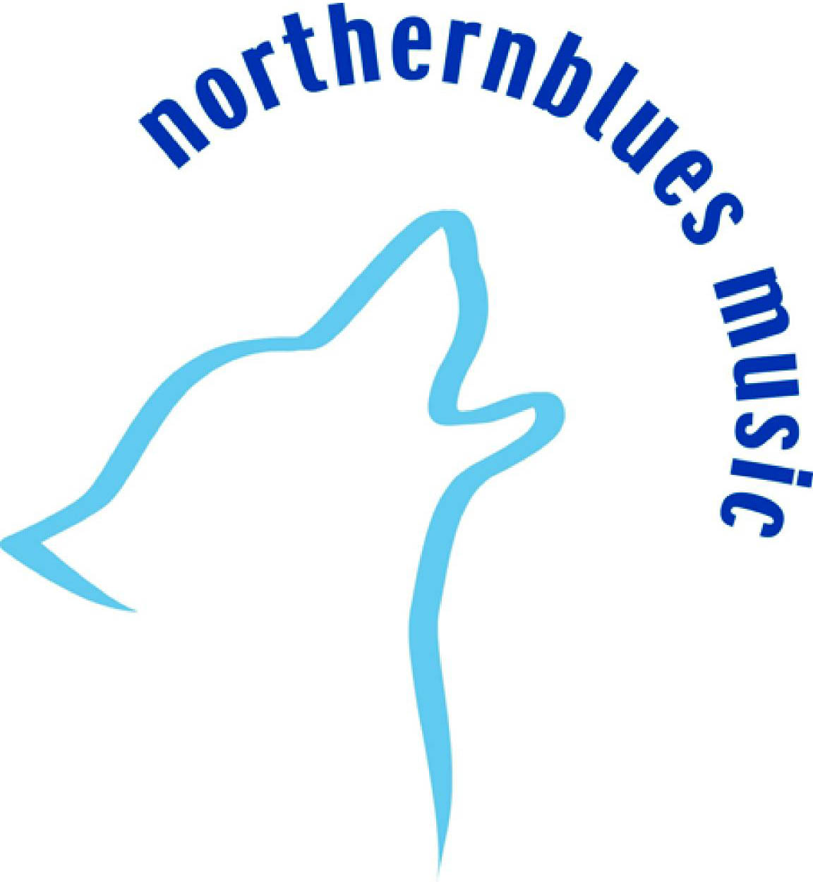 Logo NorthernBlues Music